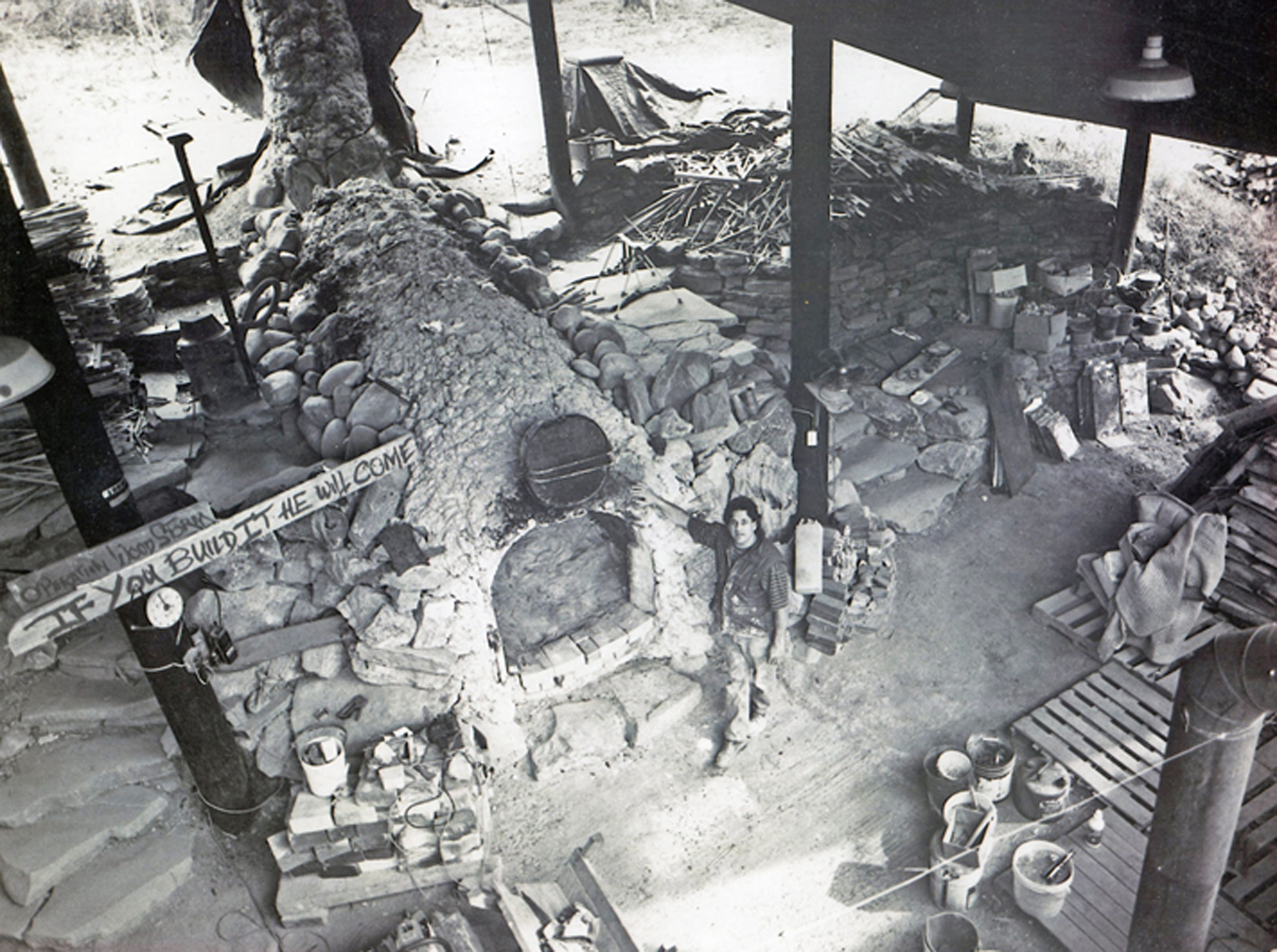 Peter Callas at his Anagama in New Jersey, USA.